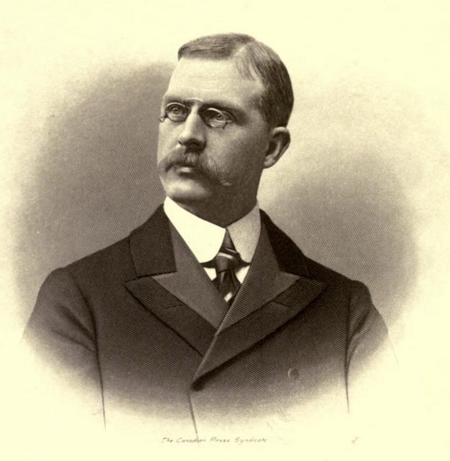 J. B. Tyrrell